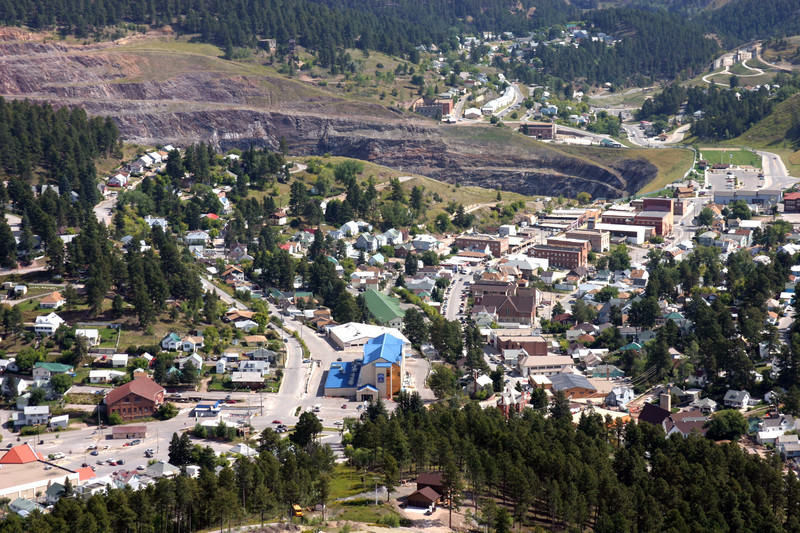 Town of Lead — Lawrence County, South Dakota. Open pit of the Homestake Gold Mine can be seen.